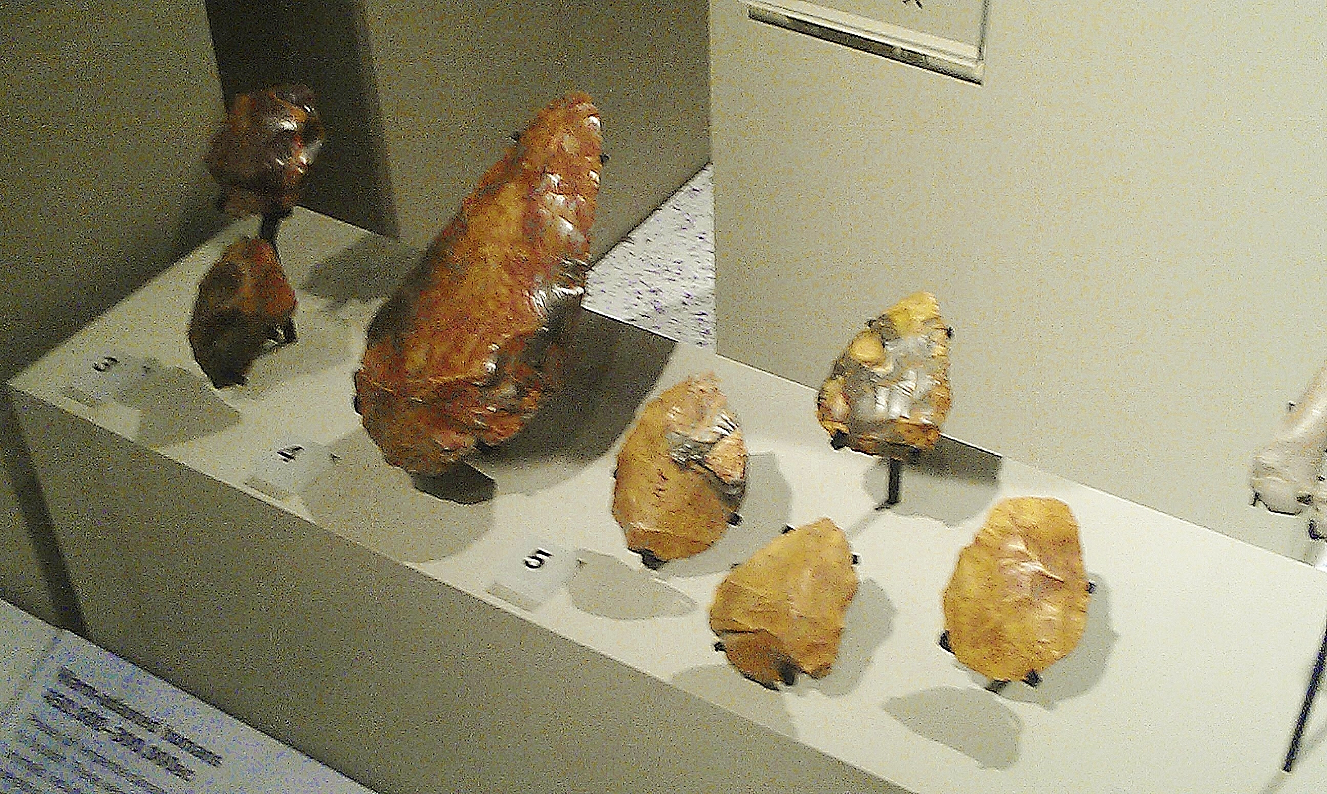 Old Stone Age lithic tools from Swanscombe in Kent; by 2012, they were an exhibit at the Museum of London.